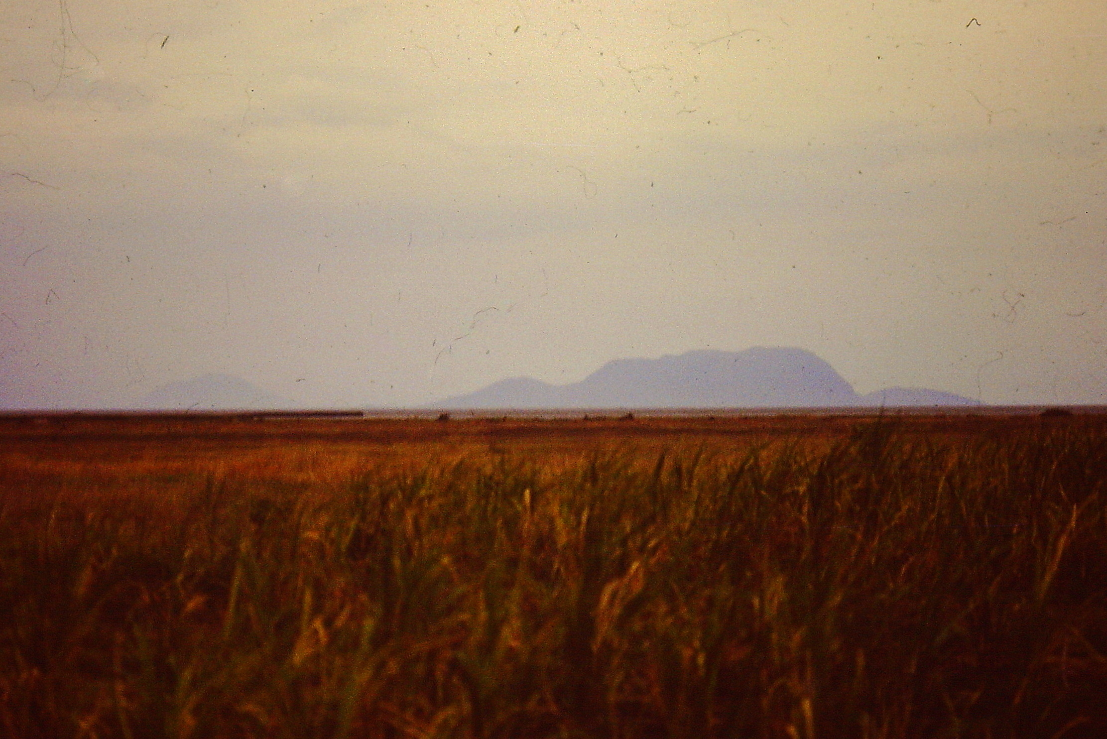 Lake Amaramba and lake Chiuta lie amid a vast plain, often swampy. Moçambique/Malawi border runs across the plains.